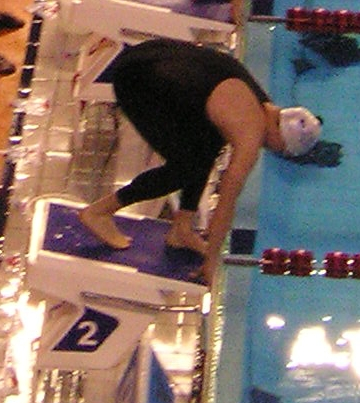 French Swimming Championships, Montpellier, 24 April 2009 afternoon: the starting block "Rome World Championship" style, view from above at the start of a race.